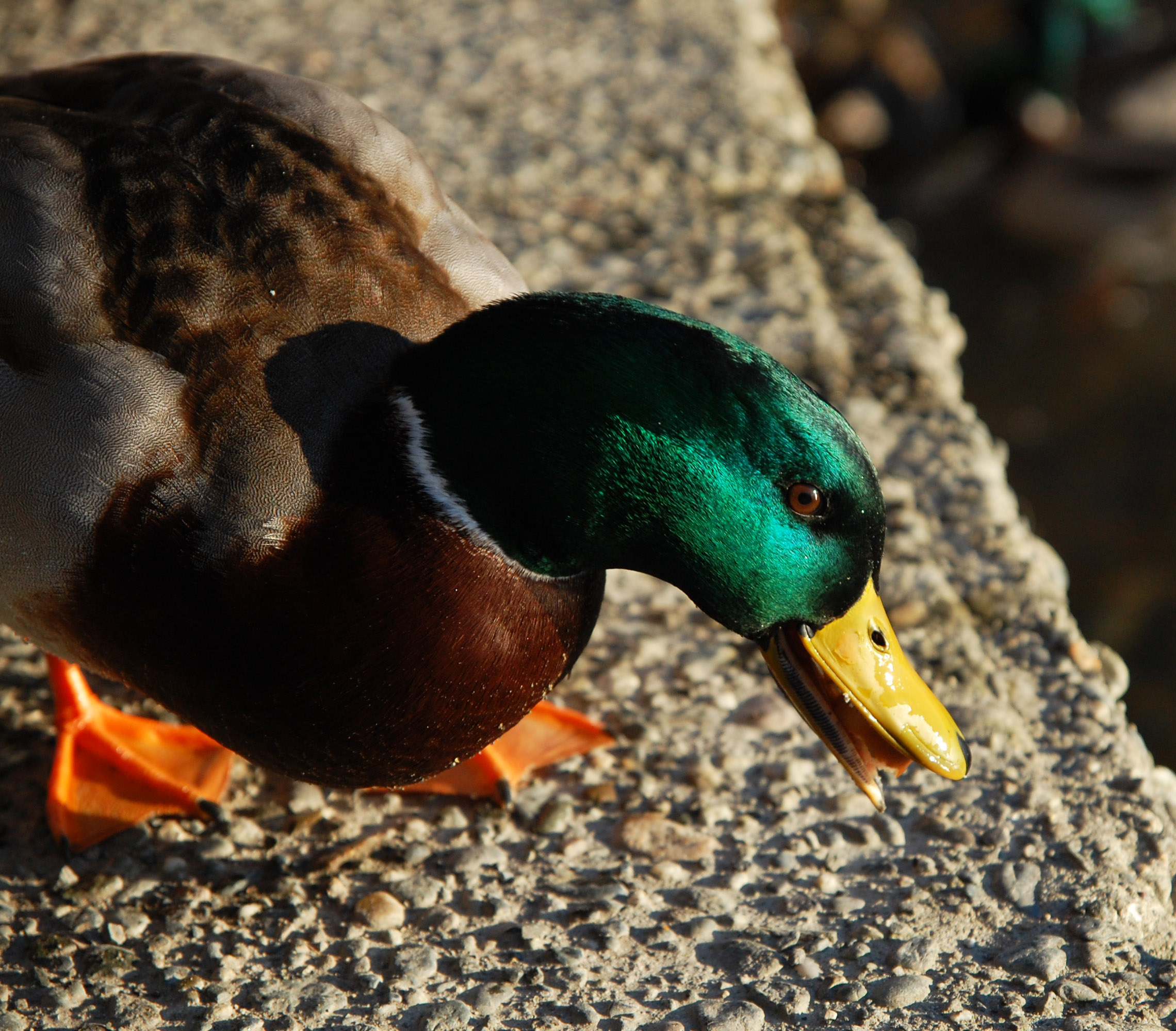 A Mallard with a piece of bread in its mouth.